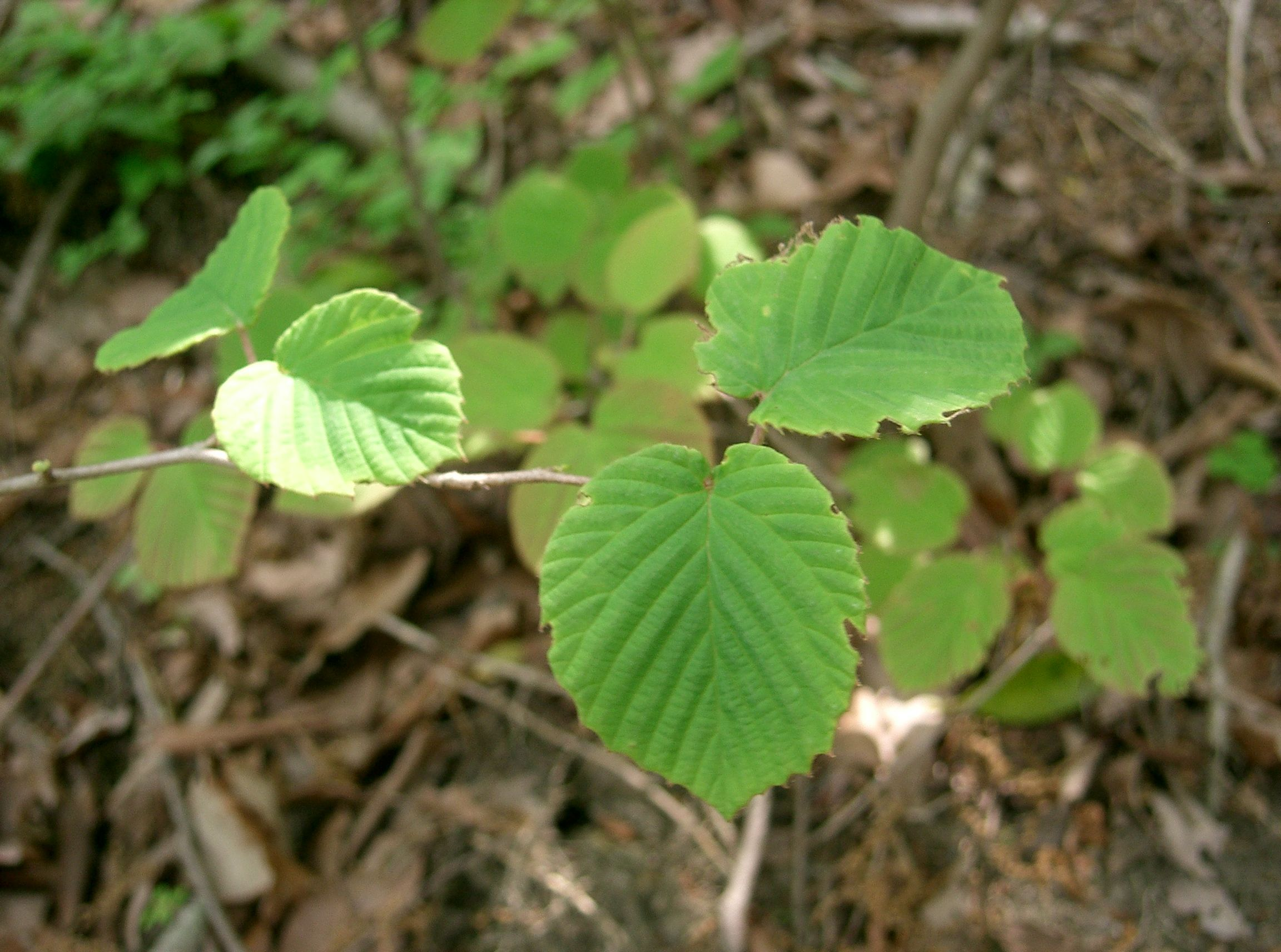 Corylopsis spicata